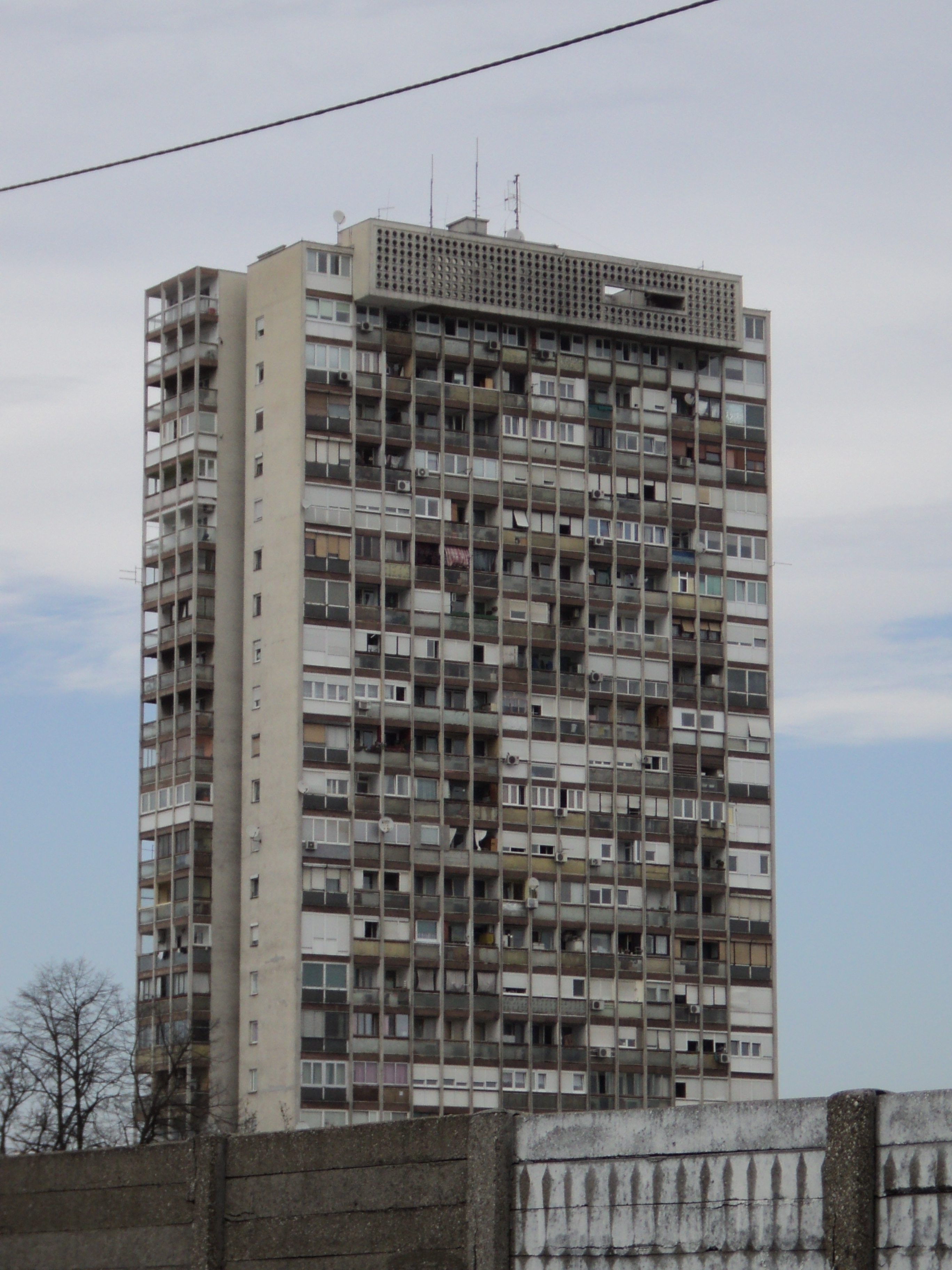 Skyscraper in Trešnjevka, Zagreb, colloquially known as Trešnjevka beauty.